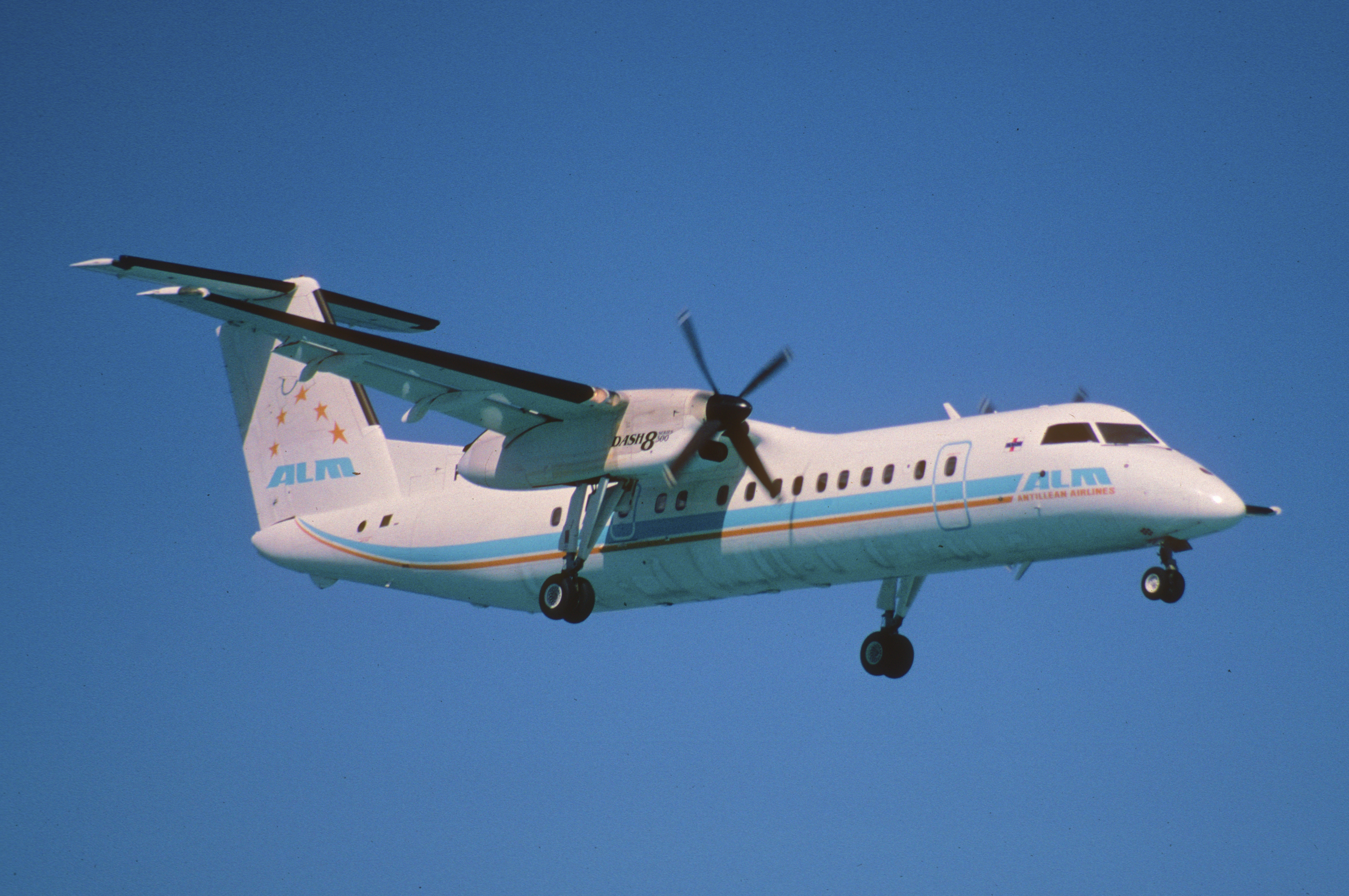 50ah - ALM Antillean Airlines DHC-8-311 Dash 8 (SCD); PJ-DHE@SXM;05.02.1999